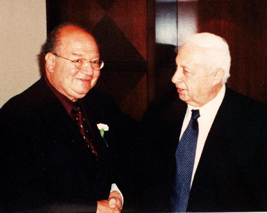 Congressman Gary Ackerman meeting with Israeli Prime Minister Ariel Sharon at his official residence in Jerusalem where the two discussed the region's increased wave of violence and terrorism as well how to revive the stalled Middle East peace process.